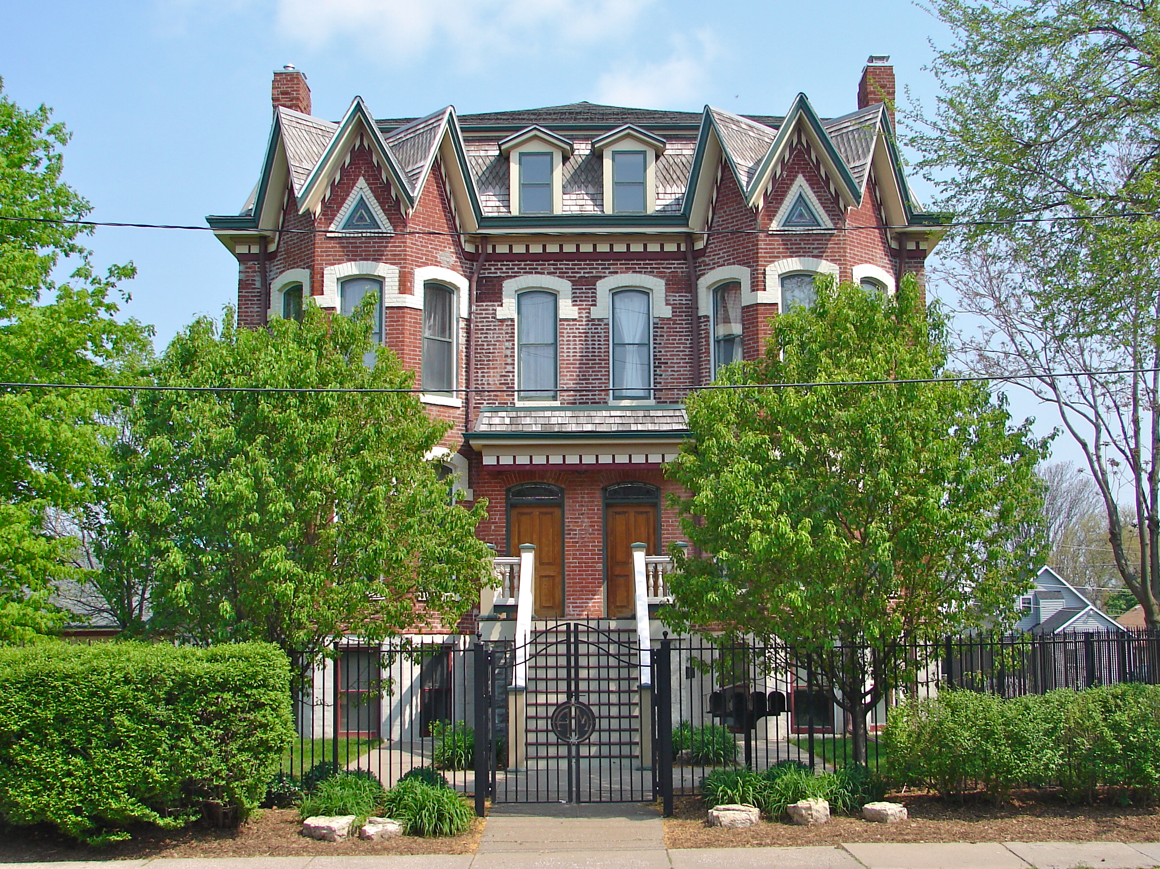 House in the Broadway Historic District on the NRHP since August 14, 1998. The hostoric district is r oughly bounded by 17th and 23rd Sts., 5th and 7th Aves., Lincoln Court, and 12th and 13th Aves. in Rock Island, Rock Island County, Illinois. Historic District that contains more than 550 Victorian homes and other buildings. This particular house is at the corner of 22nd Street and 7th Ave. and has "AM" inscribed on the lock plates of the gate.